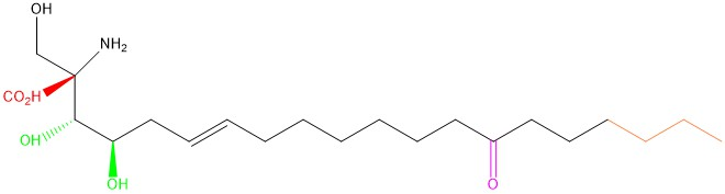 Modifications to ISP-1 marked with color